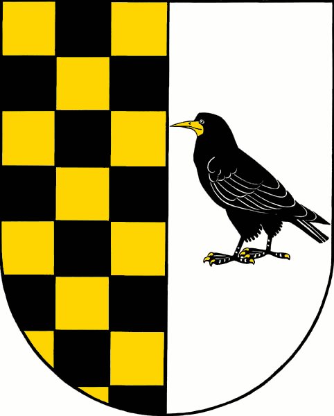 Municipal coat of arms of Ráby village, Pardubice District, Czech Republic.